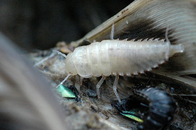 Picture taken in Commanster, Belgian High Ardennes. Species: Thanatophilus sp. larva